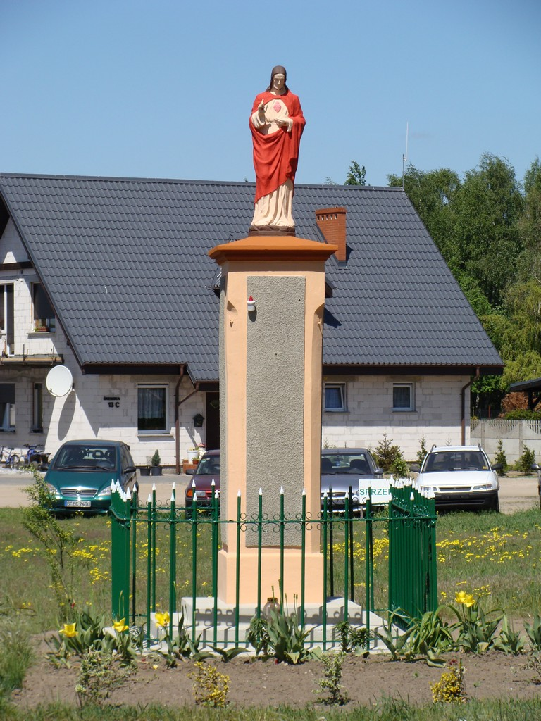 Nochowo, roadside shrine of Jesus Christ.